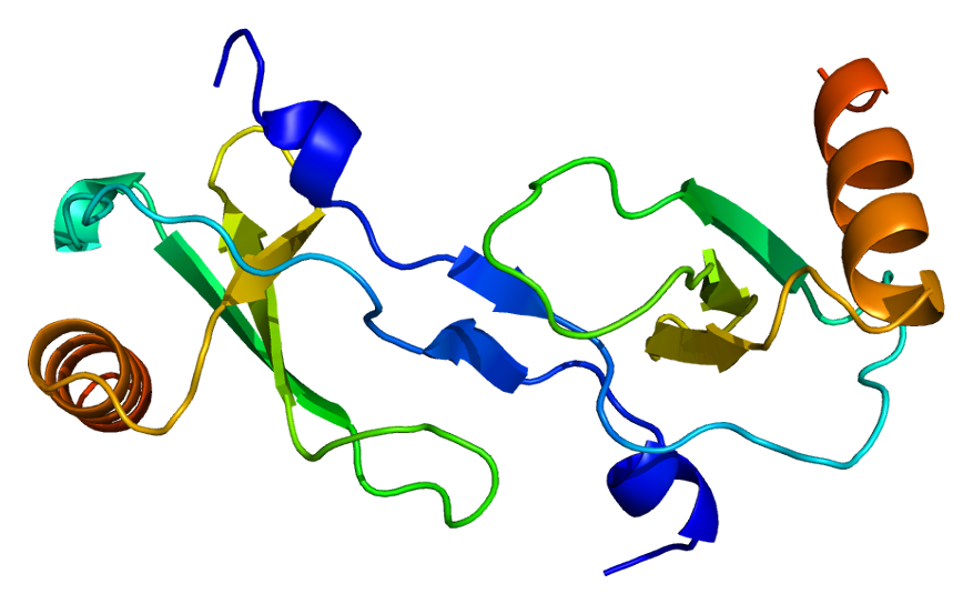 Structure of the CCL2 protein. Based on PyMOL rendering of PDB 1dok.